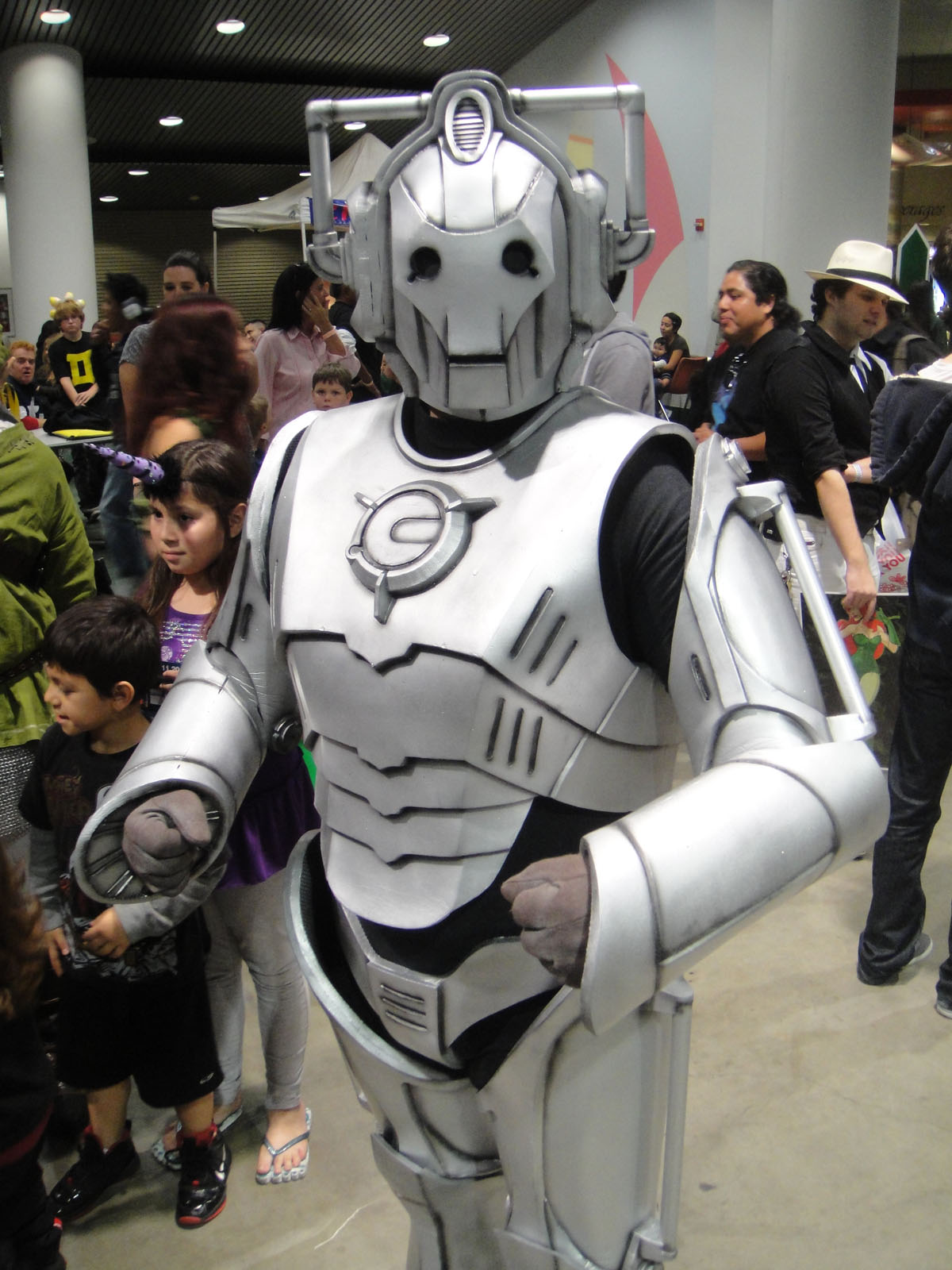 photo 2011 Pop Culture Geek taken by Doug Kline If you're interested in higher resolution versions of my images, contact me via my profile page.